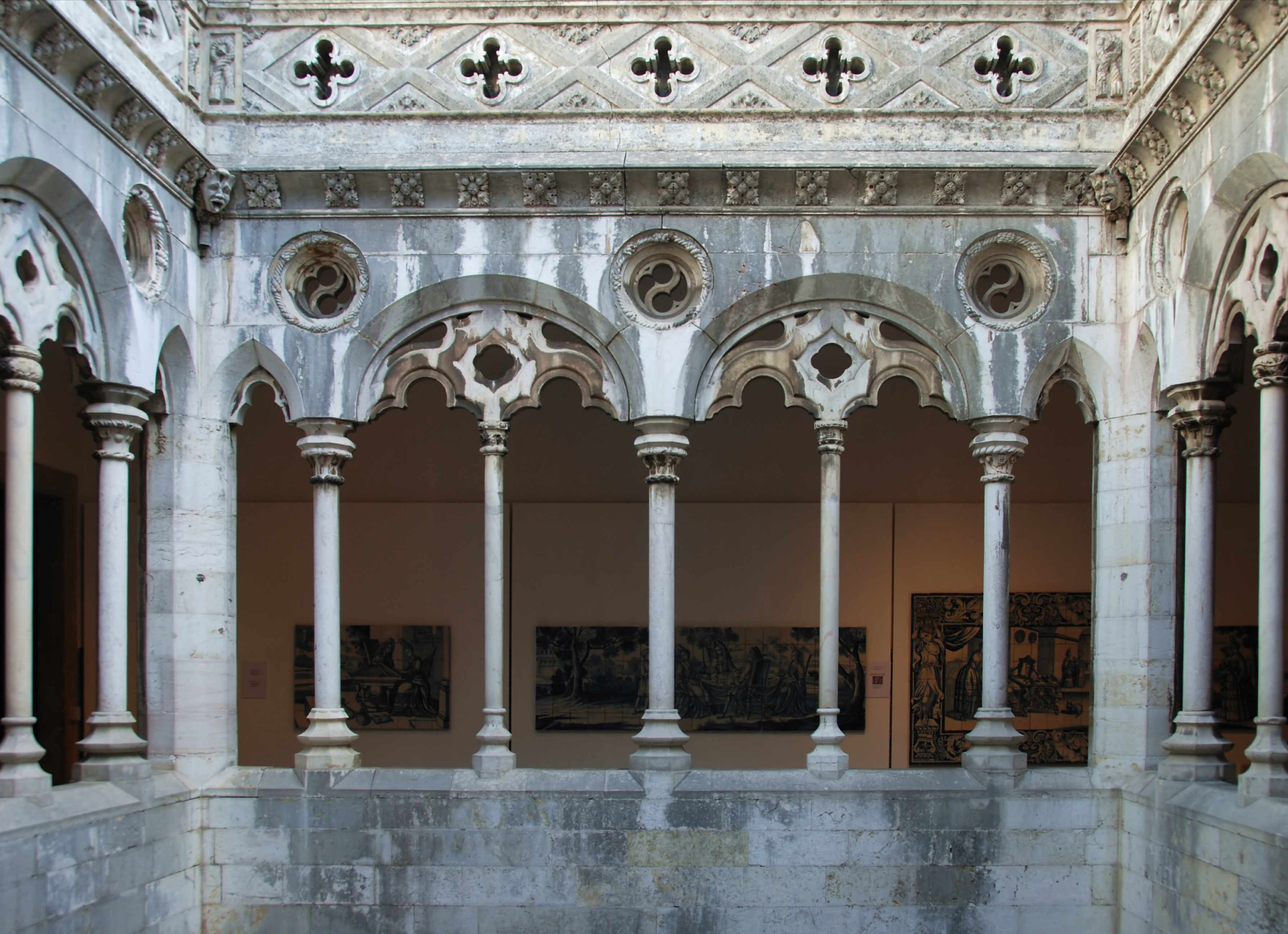 The Little Cloister of the Mosteiro da Madre de Deus (Monastery of the Mother of God), Lisboa, where the National Museum of the Azulejo is housed.